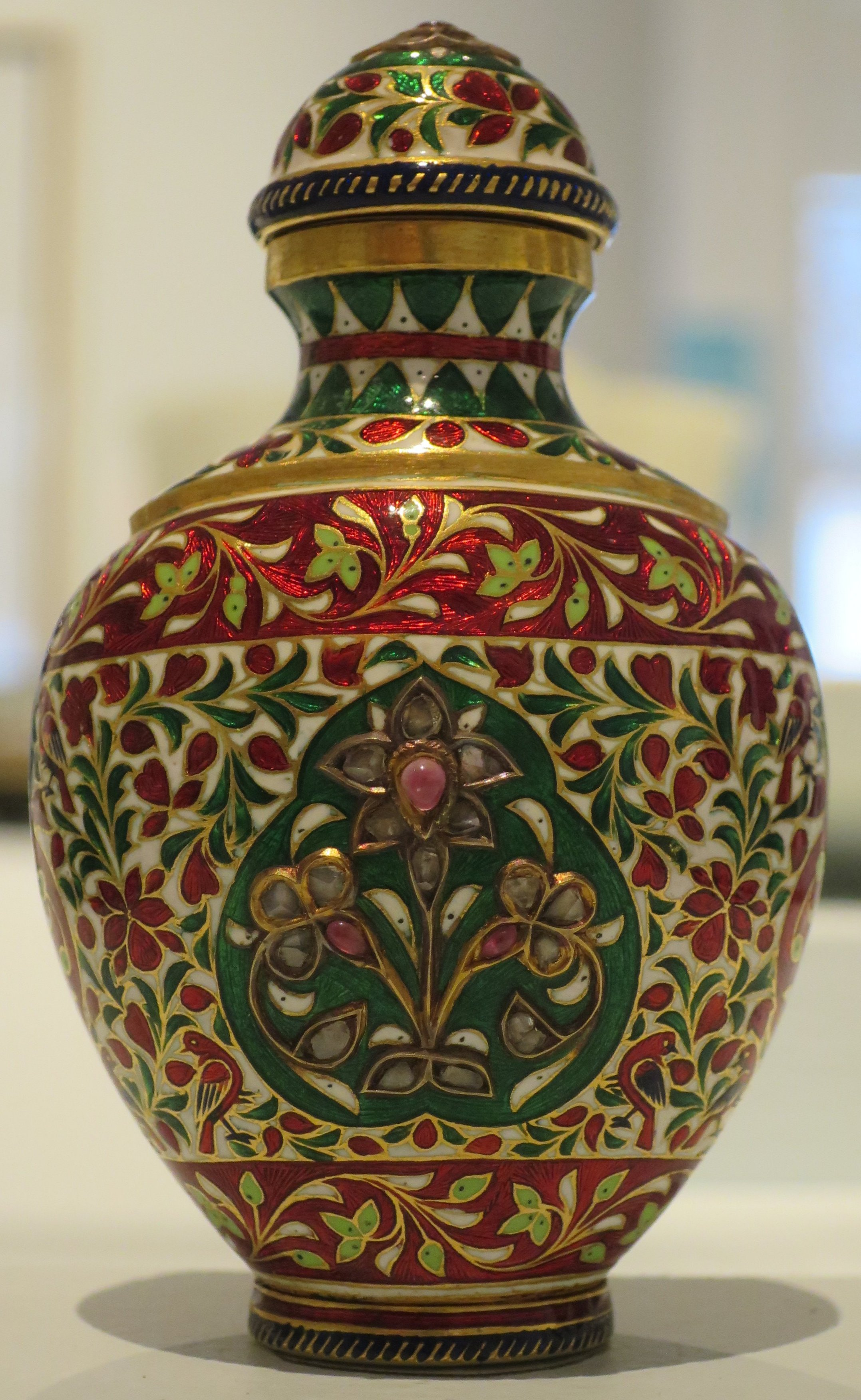 Snuff bottle, Jaipur, India, Mughal period, 18th-19th century, made for the Chinese market, enameled gold and gemstones, long-term loan to the Honolulu Museum of Art by Doris Duke Foundation for Islamic Art (accession 44.11a-c)